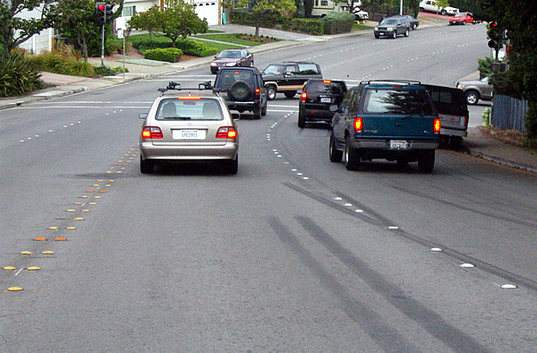 Northbound traffic on Farm Hill Boulevard in Redwood City. Note the use of round nonreflective raised pavement markers (Botts' dots) for dividing lanes going in the same direction (the white dots) and lanes going in the opposite direction (the double line of yellow dots). Note also that Stimsonite reflective raised pavement markers (appearing orange in the photo) are placed in the lines of yellow Botts' dots at regular intervals. This makes the lines more visible at night, while costing less than if the lines were formed entirely of Stimsonite markers.